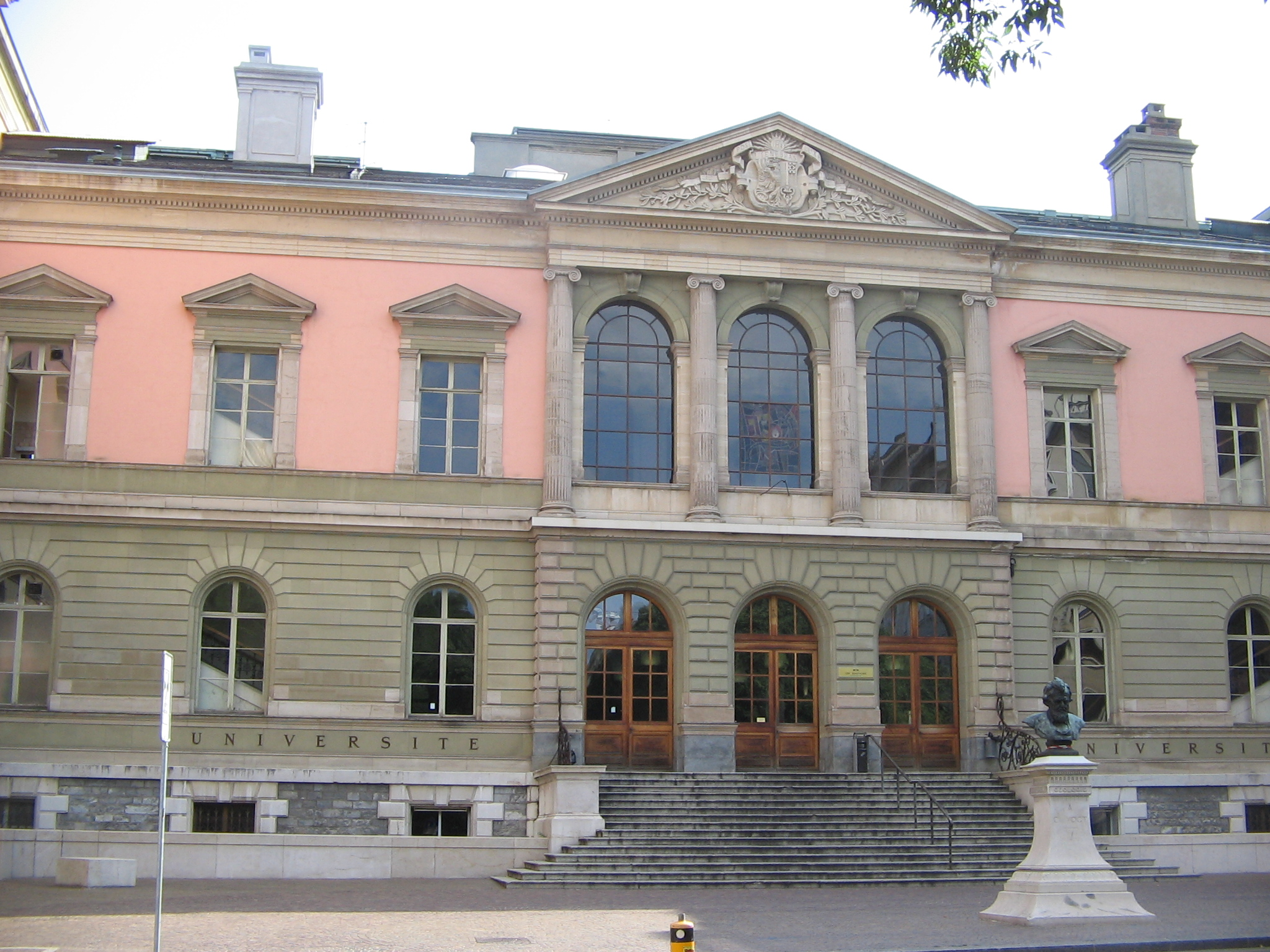 Entrance of the Uni-Bastions University in Geneva